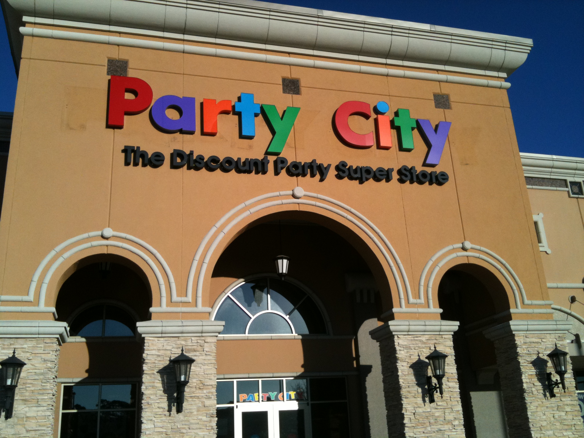 See social profiles for this & other local Woodlands businesses at . Is this your business? Want a better picture for your listing? Claim it!